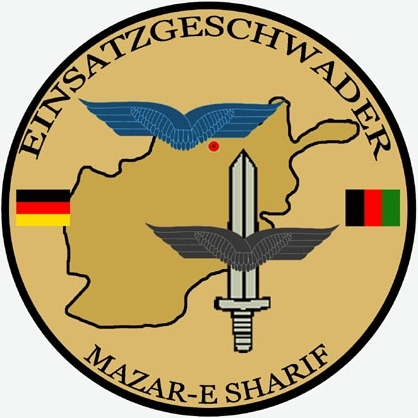 Coat of arms of the German armed forces Composite Wing Mazar-e Sharif (ISAF)